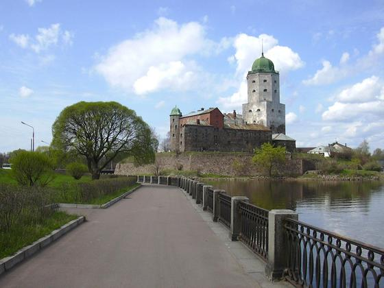 Vyborg castle was built by the Swedes from the 13th century on.